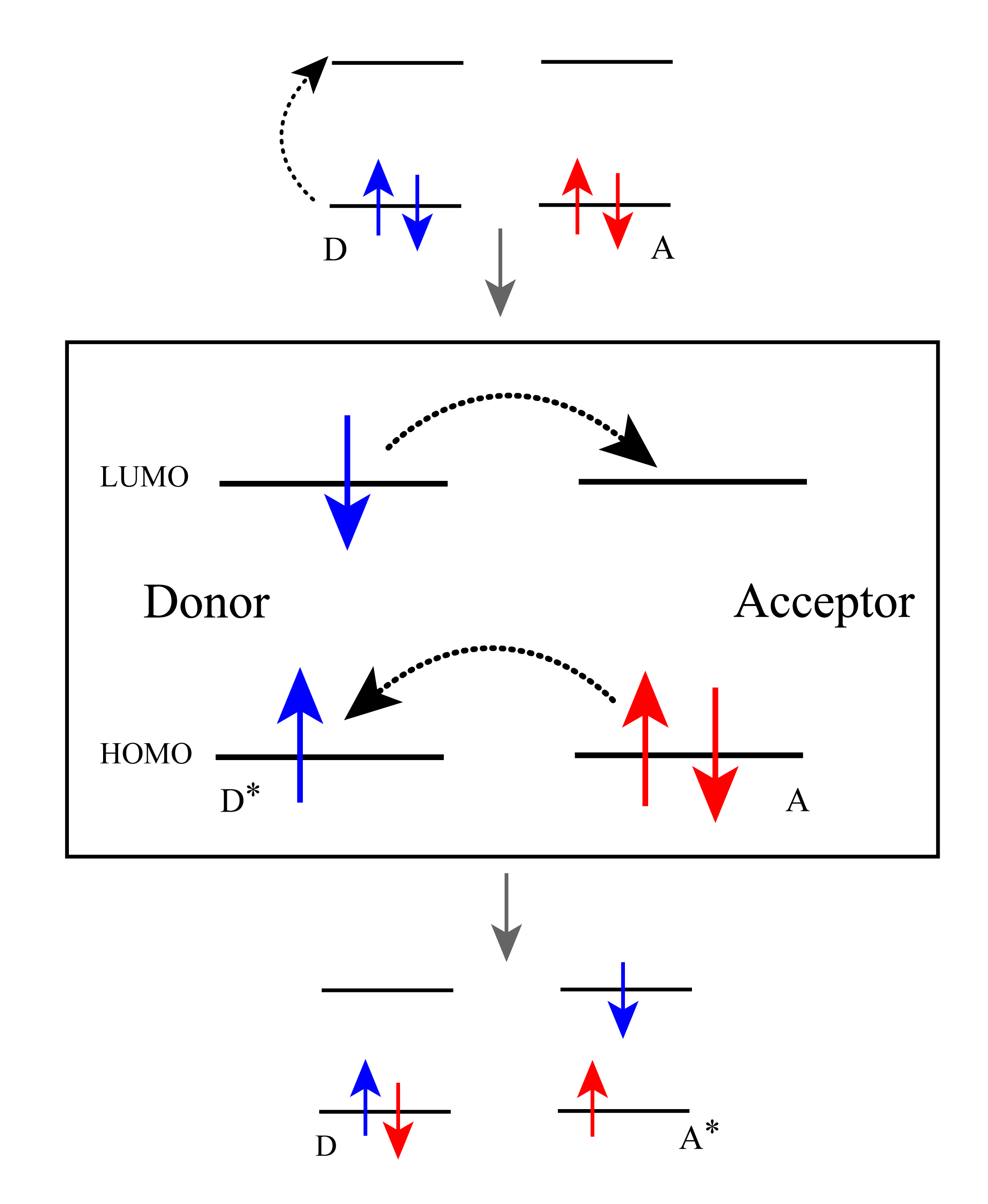 Scheme of Dexter electron (energy) transfer (arrow indicates electron movement).